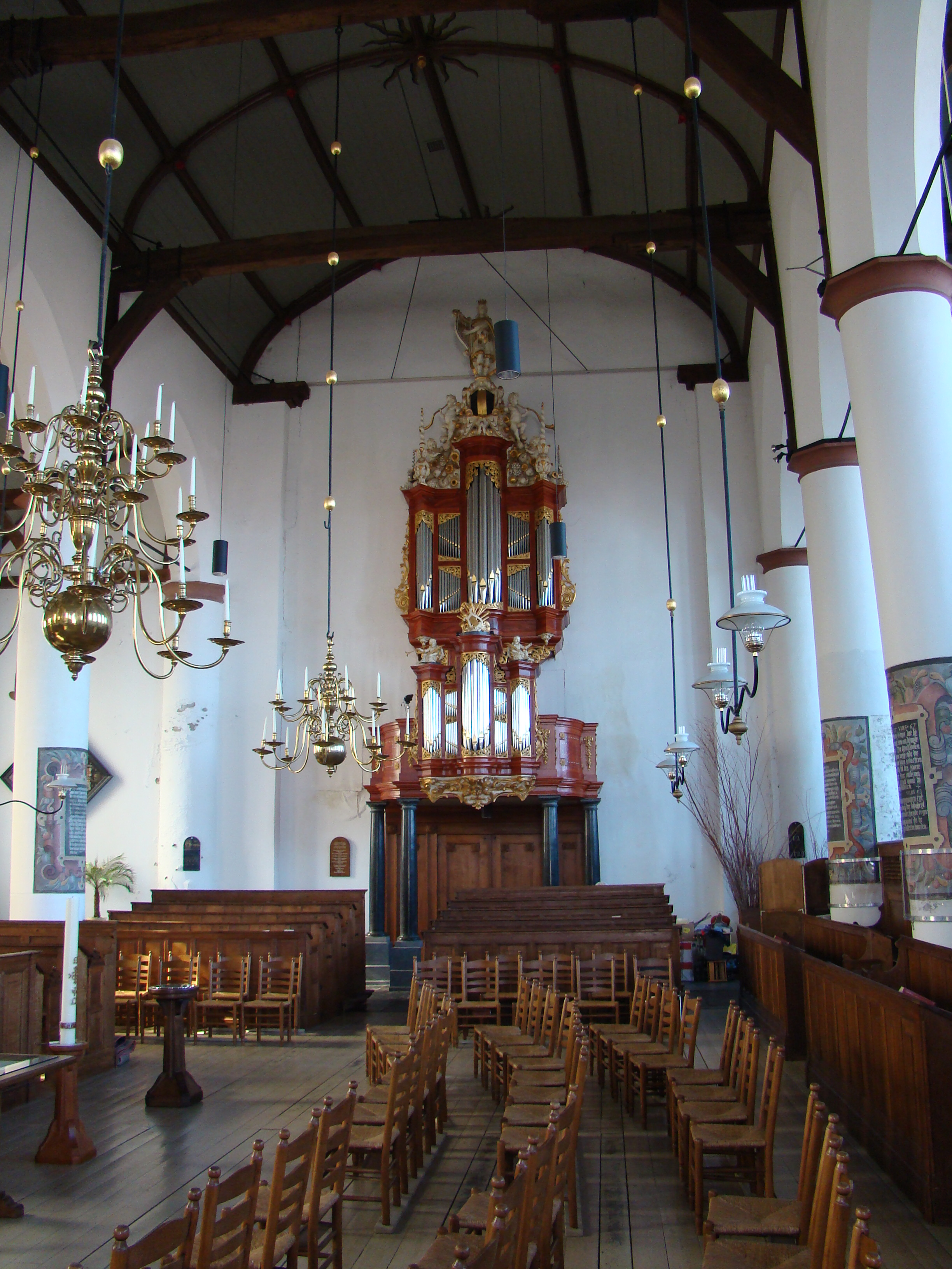 Bonifaciuskerk inside, Medemblik, Netherlands